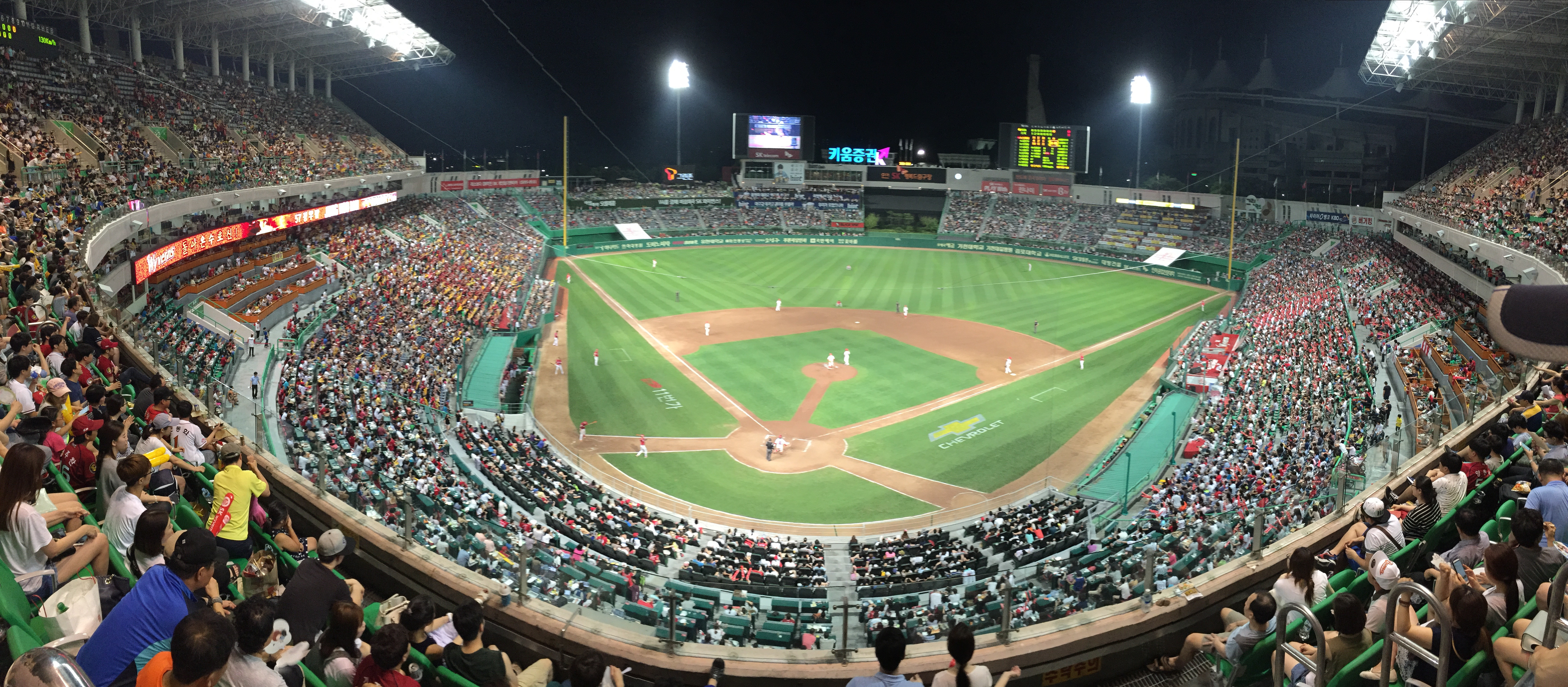 20150711 SK vs Kia